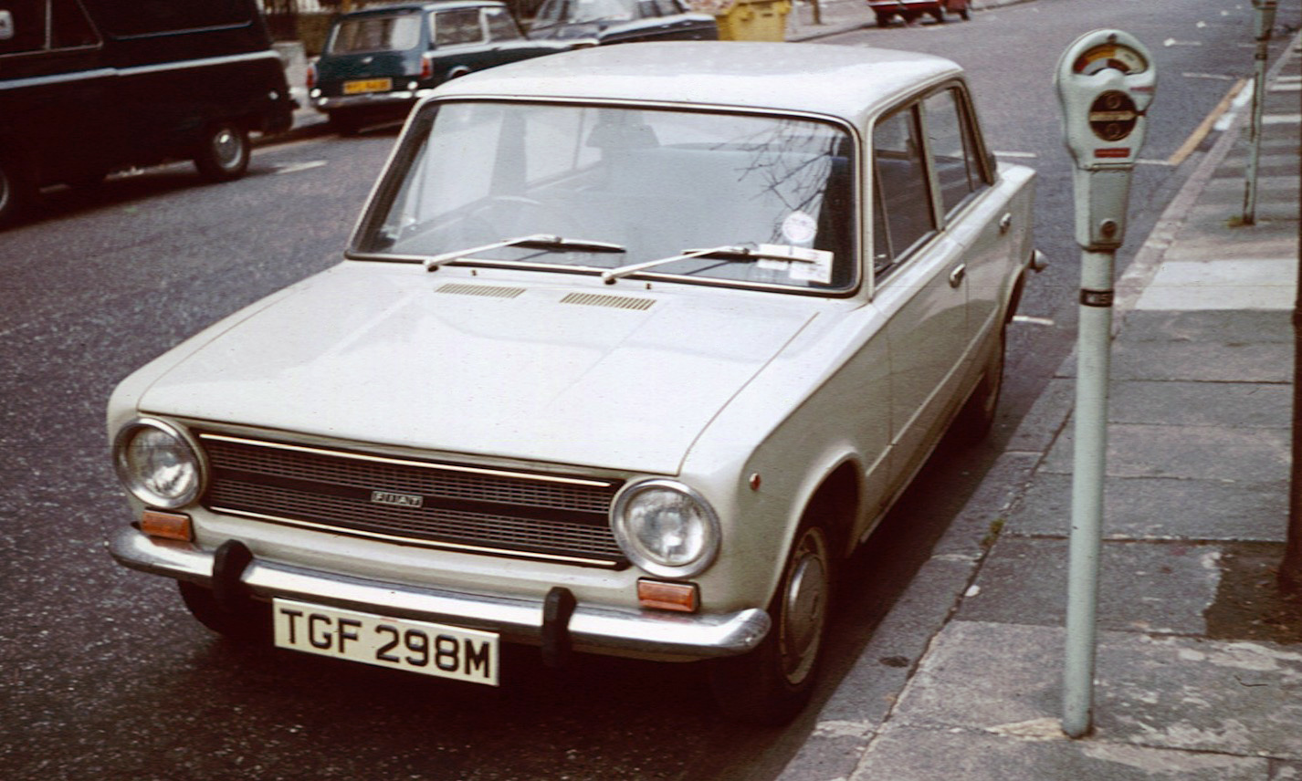 Fiat 124 with a parking meter in London